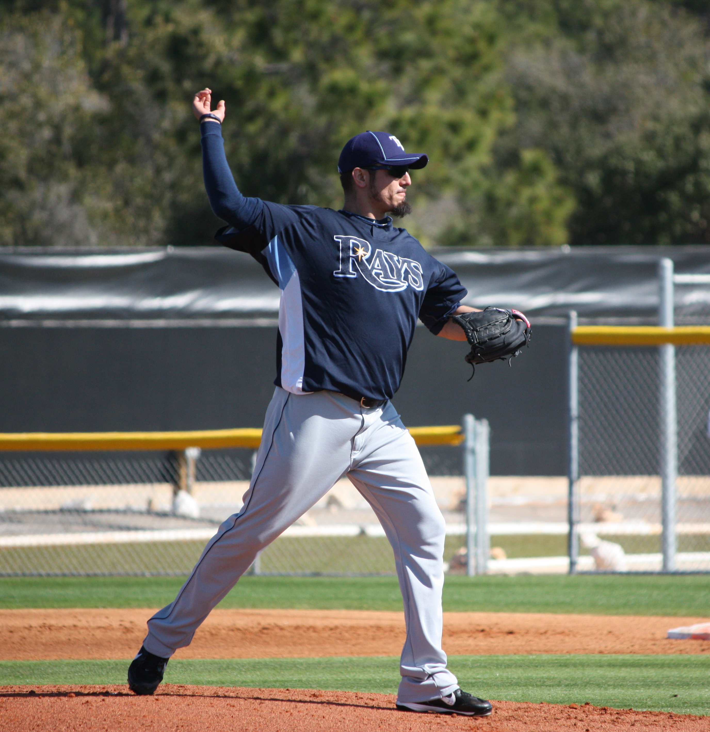 Matt Garza of the Tampa Bay Rays doing first base drills during spring training workouts at Charlotte Sports Park in Port Charlotte on February 21, 2010.